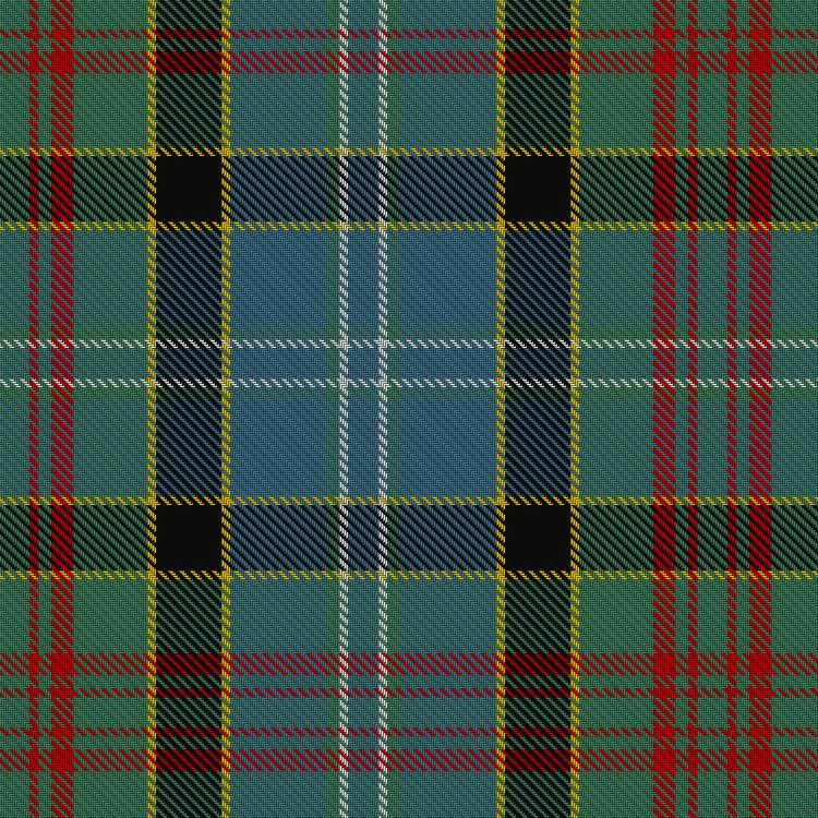 Designed by Allan C. Drennan who created it in 1952 when it won a first prize at Kelso Highland Show as the Paisley district tartan. The designer worked for Anchor Mills in Paisley. It has since also come to be regarded as a family tartan for those of the name Paisley. D.C. Dalgliesh also exhibits this sett as 'Drennan'. See also Duke of Edinburgh - which he designed in 1955.